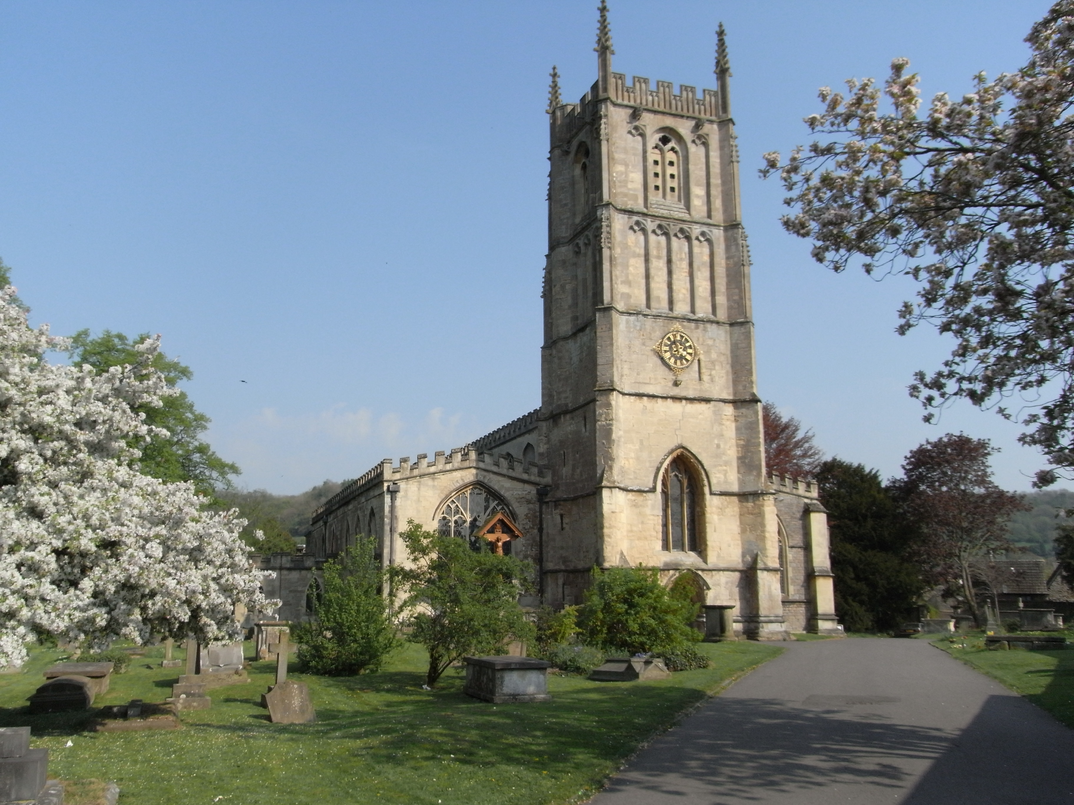 St Mary the Virgin parish church, Wotton-under-Edge, Gloucestershire, seen from the northwest